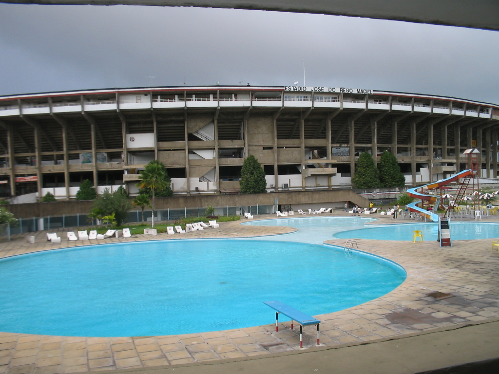 View of Estádio José do Rego Maciel (also known as Estádio do Arruda), Recife, Brazil.